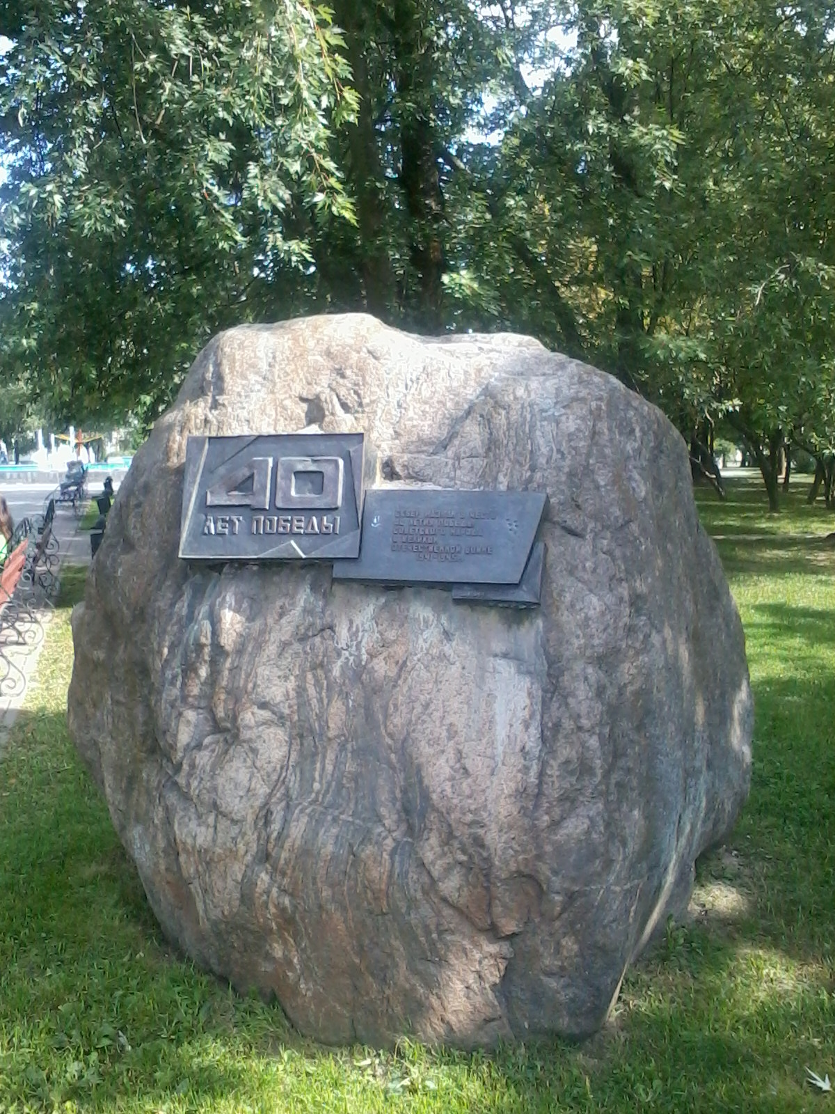 Square 40th anniversary of Victory in Mogilev